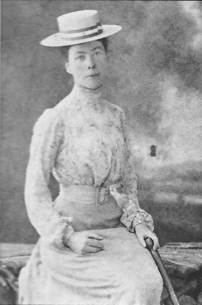 Helena Rice (1866-1907), Irish tennis player, Wimbledon champion 1890.